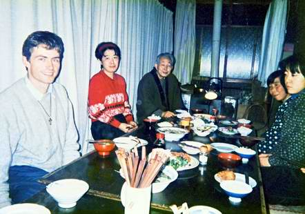 Dinner in Takamori Soan, Nagano Prefecture, Japan. Third from left at the table: fr Shigeto Oshida OP